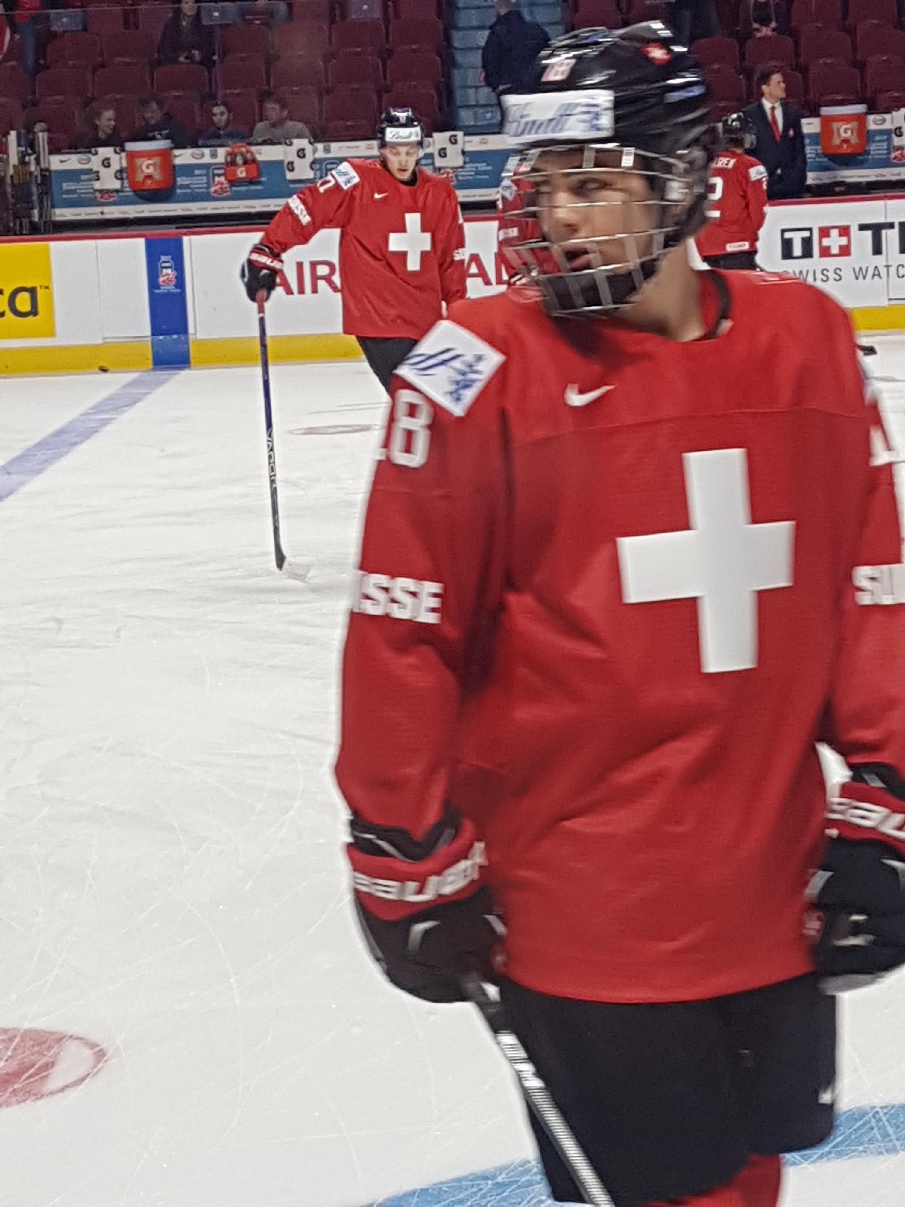 Nico Hischier playing for Switzerland against the Czech Republic at the 2017 World Junior Ice Hockey Championships.